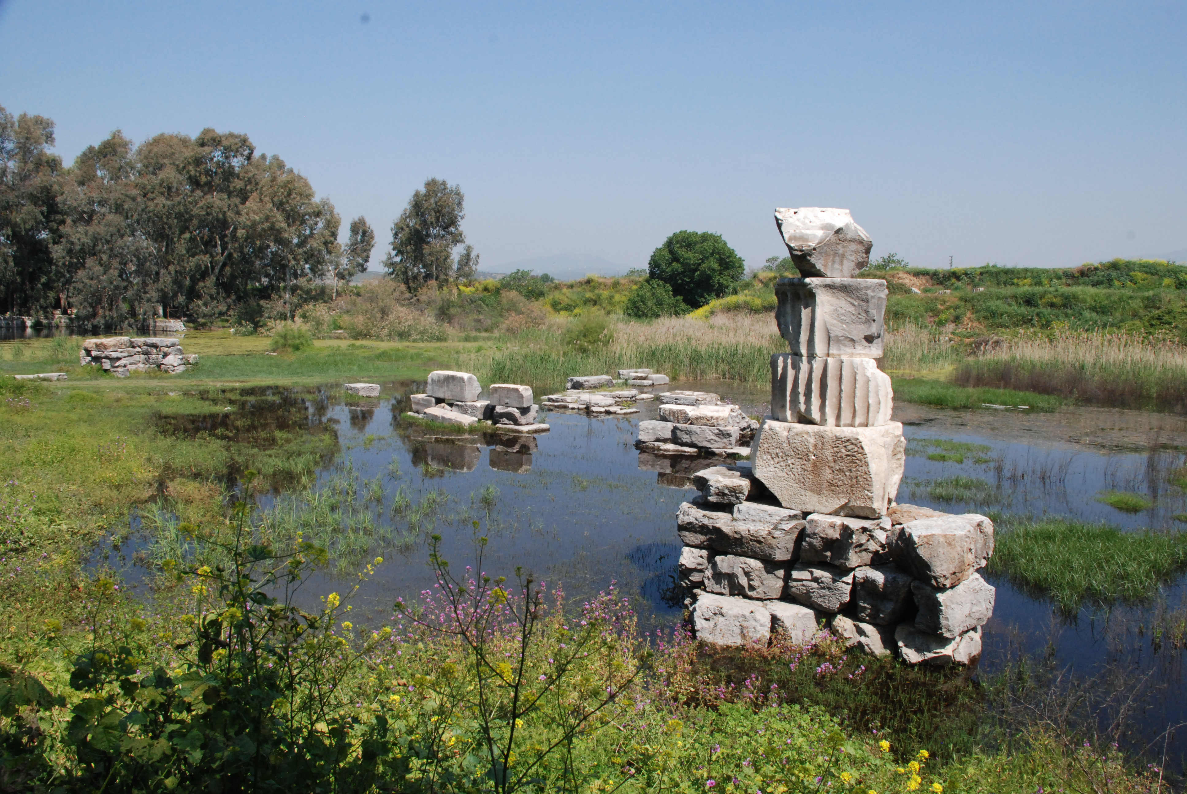 The remains of the Temple of Artemis in Ephesus, one of the seven wonders of the ancient world, outside Selçuk, Turkey.